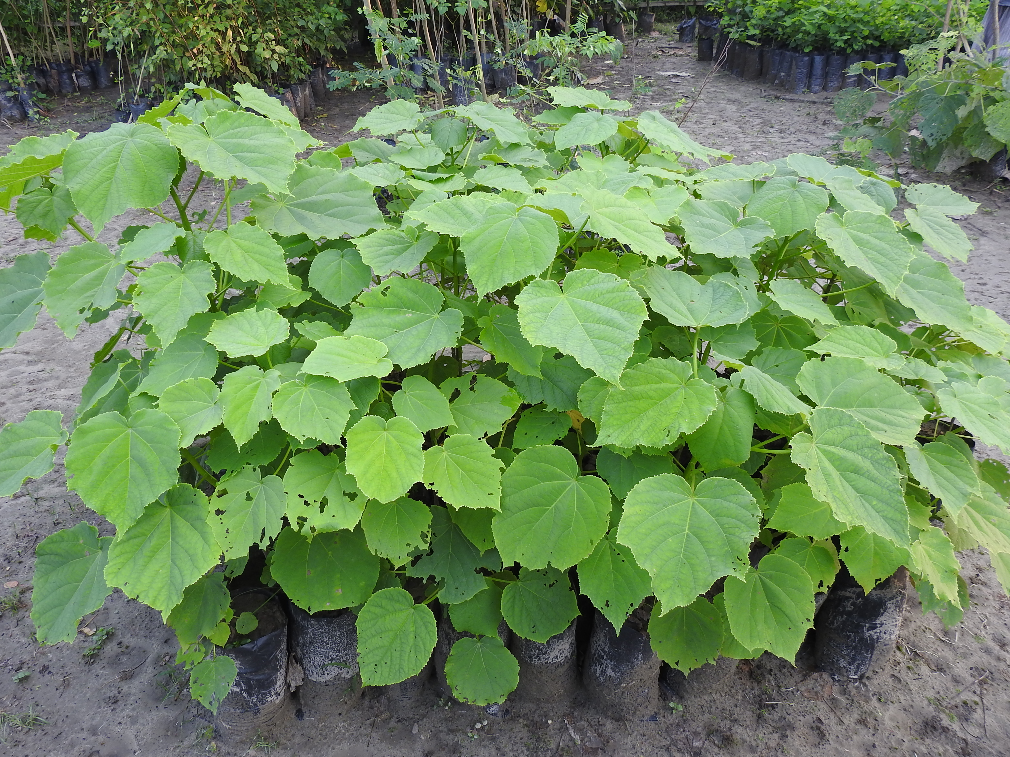 Seedlings/saplings of Tetrameles nudiflora at NCF nursery in Seijosa, Pakke Tiger Reserve